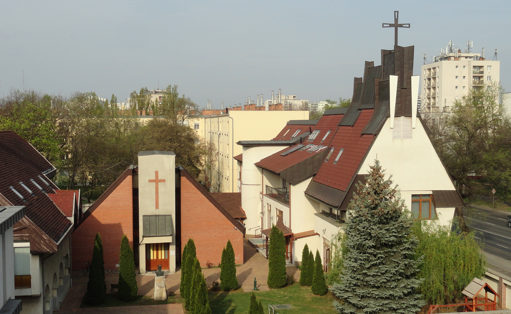 The Saint Ladislaus Church of the Dominican Order and John Paul II Institute in Debrecen (Hungary).